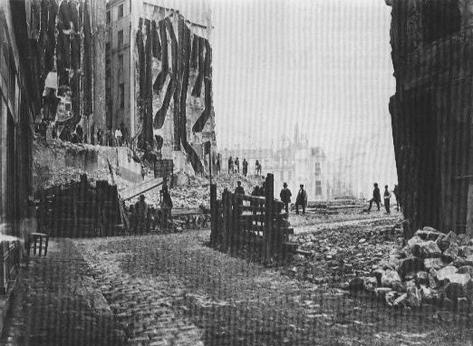 maquing Percement_avenue_de_l'Opéra paris